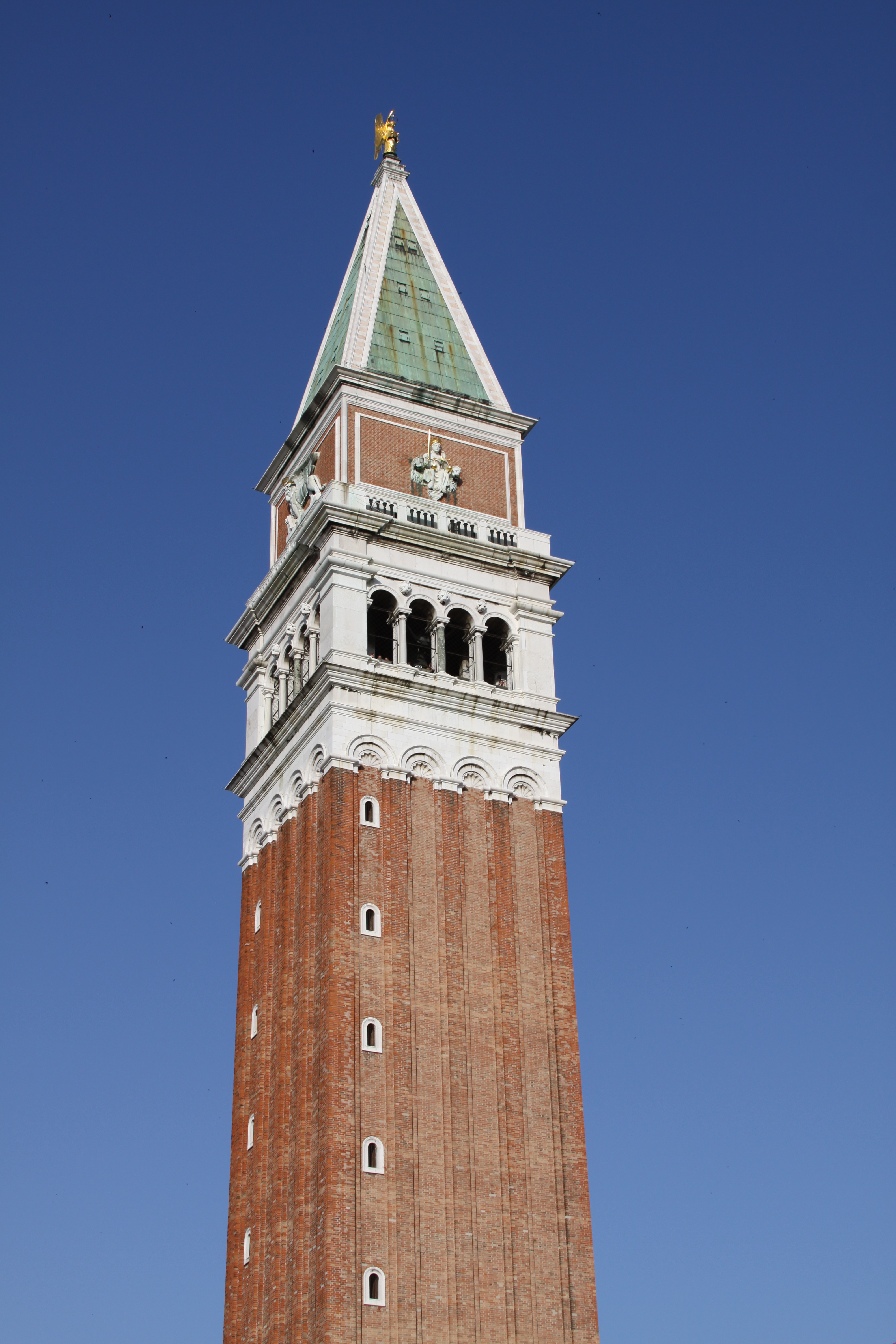 Campanile di San Marco (St Mark's Campanile). Venice, Italy.